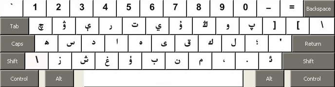 the Uyghur keyboard layout